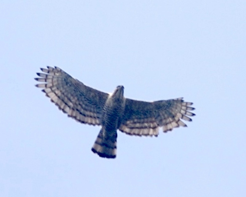 Javan Hawk Eagle Spizaetus bartelsi Location:Gunung Gede, Java, Indonesia 27th August 2006 Endangered Indonesian name: Elang Jawa Distribution